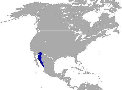 Antelope Jackrabbit (Lepus alleni) range, with colonial borders added